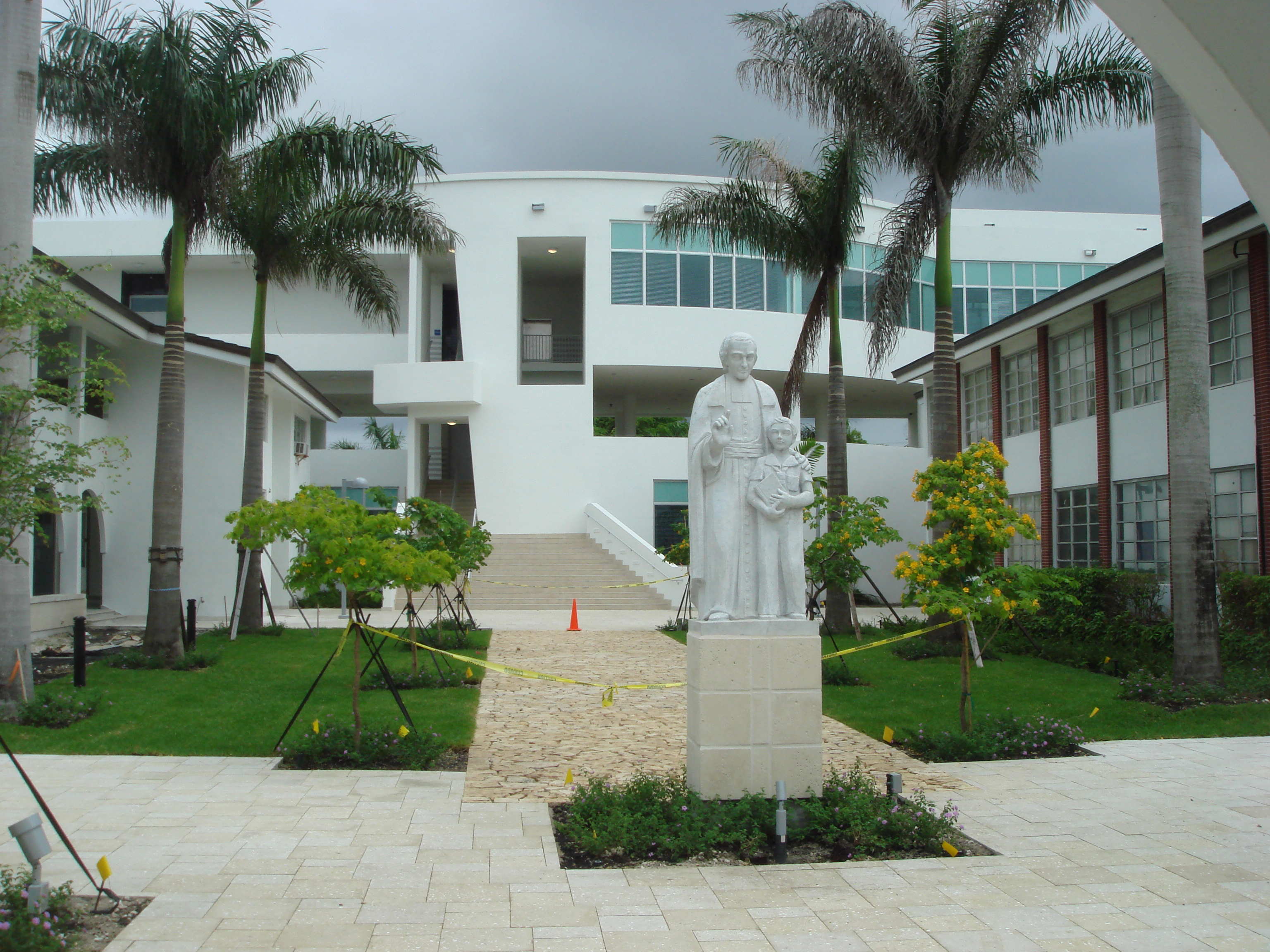 Mas Family Center at Christopher Columbus High School